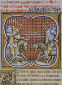 Battle of Tagliacozzo